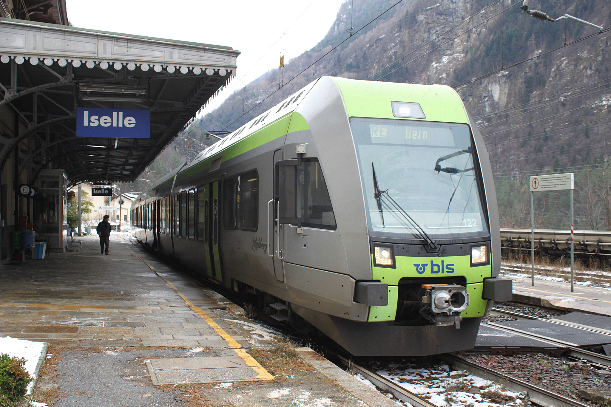 BLS RABe 535 122 calling as RegioExpress 4266 "Lötschberger" from Domodossola to Bern at Iselle di Trasquera railway station.